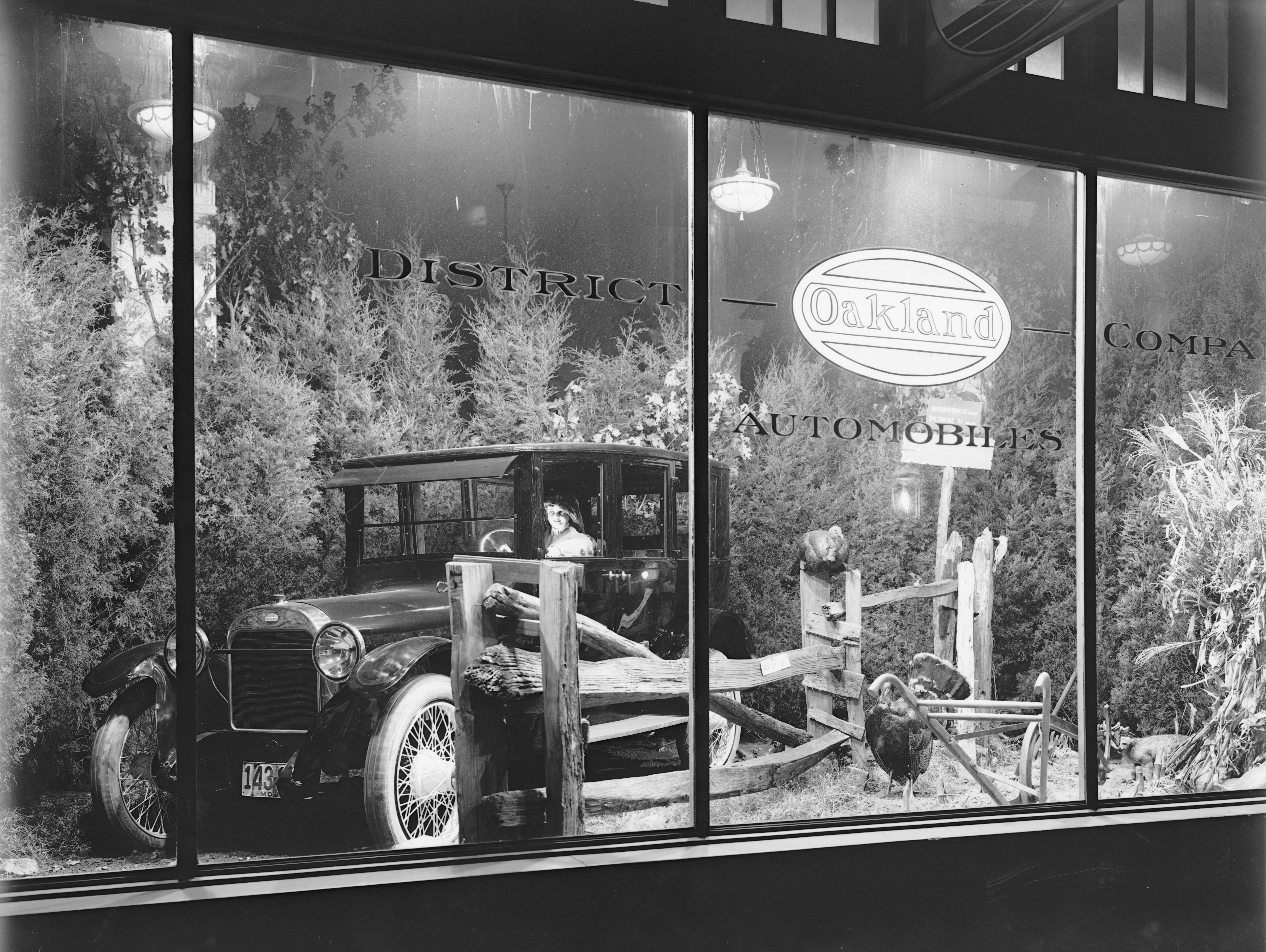 Oakland Six sedan automobile displayed in dealer window, District Oakland Co., 1709 L Street N.W. in Washington, D.C.